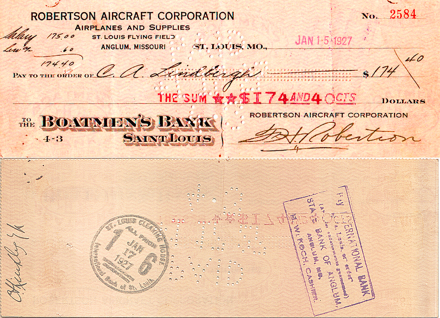 Charles A. Lindbergh's pen endorsed (as "CA Lindbergh Jr"), cancelled paycheck as a U.S. Air Mail pilot from the Robertson Aircraft Corp. dated January 15, 1927, four months before his flight to Paris. By then Lindbergh had saved up $2,000 of his own money to contribute to the project which was funded primarily by a $15,000 loan made by the State National Bank of St. Louis on February 18, 1927.